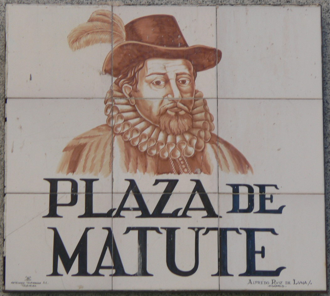 Sign of Plaza de Matute (square, Centro district) in Madrid (Spain).